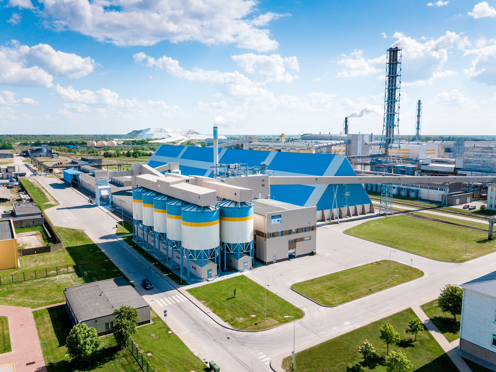 АB „Lifosa“ gamykla Kėdainiuose// Lifosa, AB plant in Kėdainiai